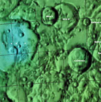 Color-coded LAC 117 from the USGS Digital Atlas